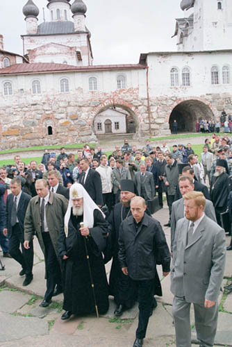 THE SOLOVETSKY ISLANDS, ARKHANGELSK REGION. President Putin visiting the Solovetsky Saviour-Transfiguration Monastery with Patriarch of Moscow and All Russia Alexii II and Governor of the Arkhangelsk Region Anatoly Yefremov (right).